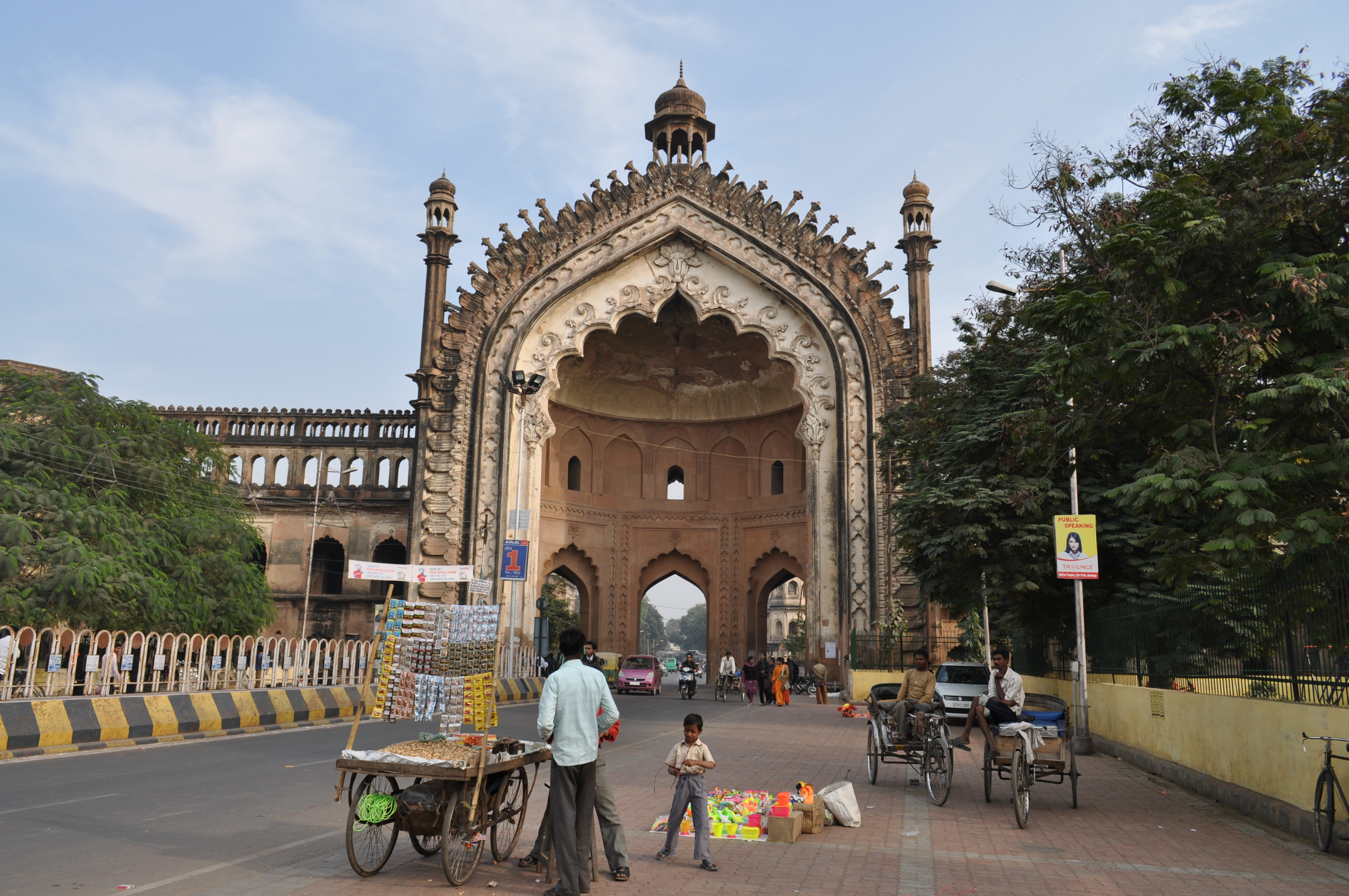 A front view of ROOMI GATE ,LUCKNOW ,INDIA